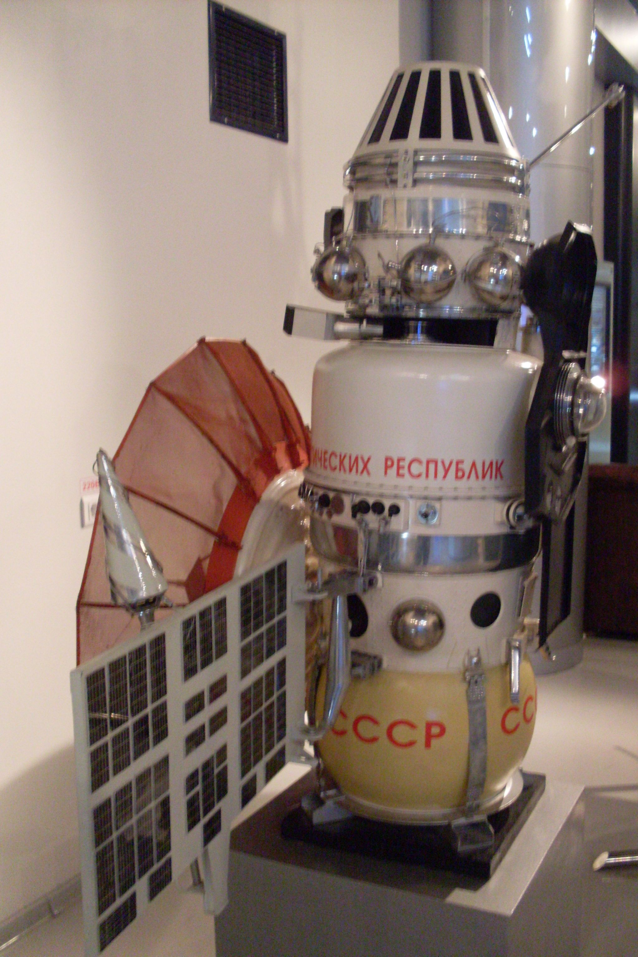 Mockup (1:3) of the spacecraft Venera 4 at Memorial Museum of Astronautics (Moscow).